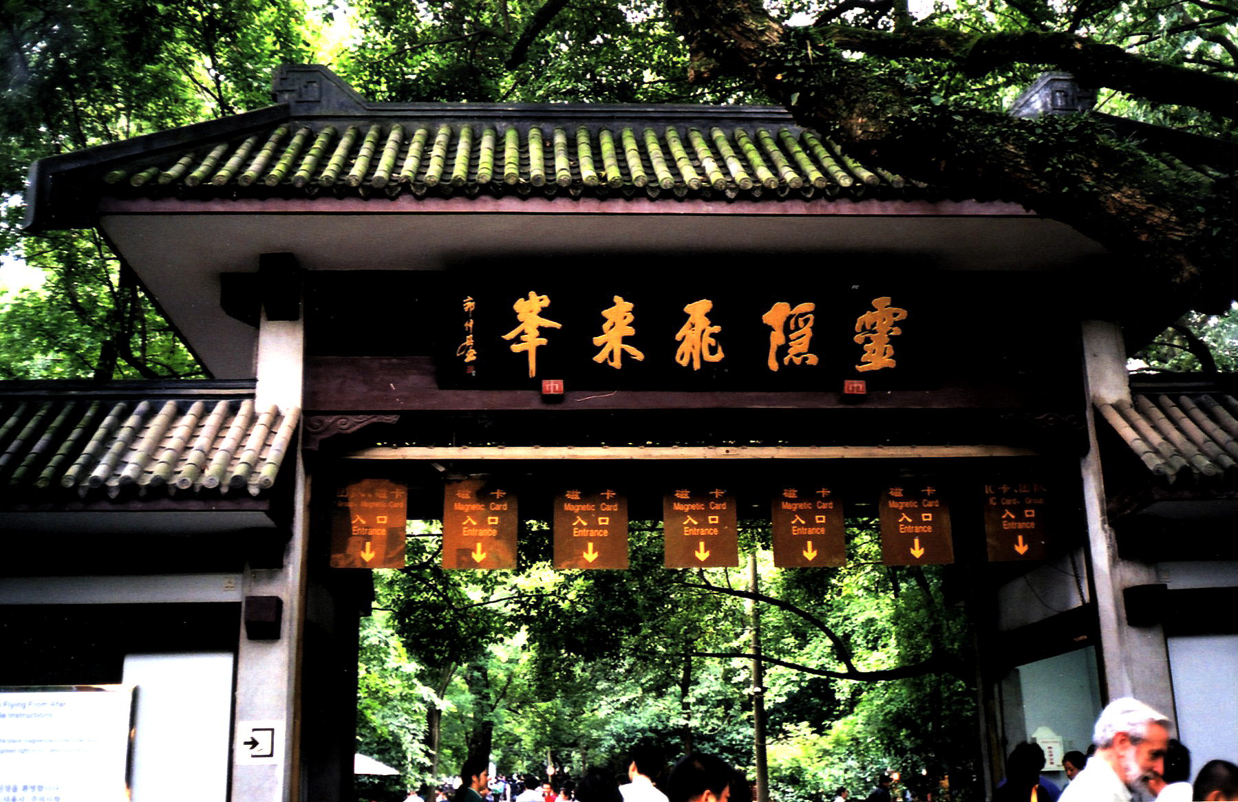 The Feilai Feng 飞来峰